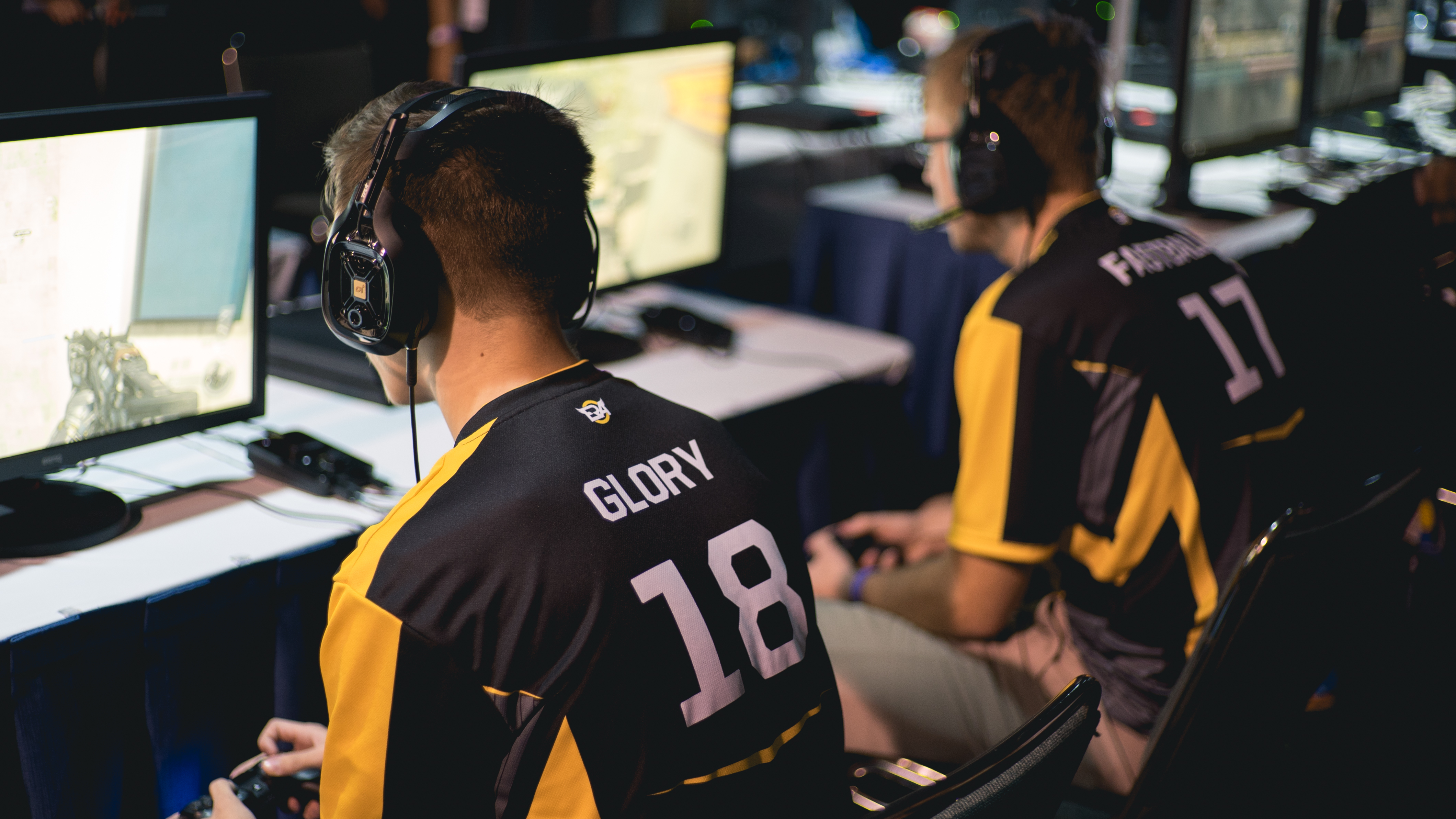 This picture captures Glory and FA5TBALLA warming up for a match at Call of Duty World League Anaheim.